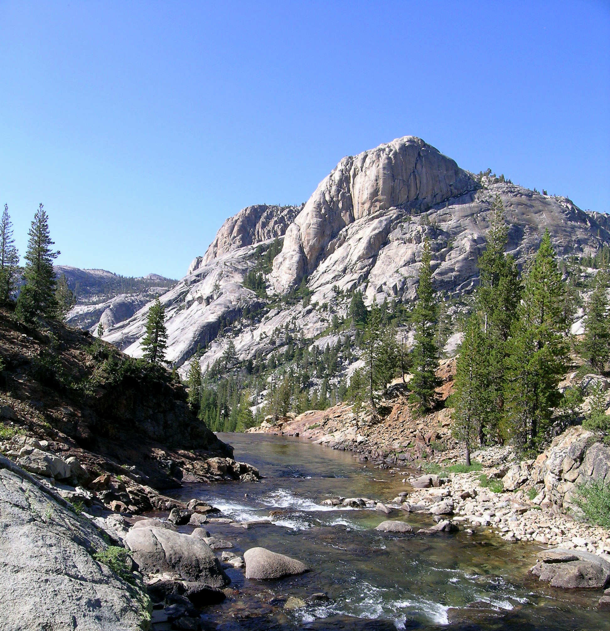 On the Glen Aulin trail in Yosemite National Park